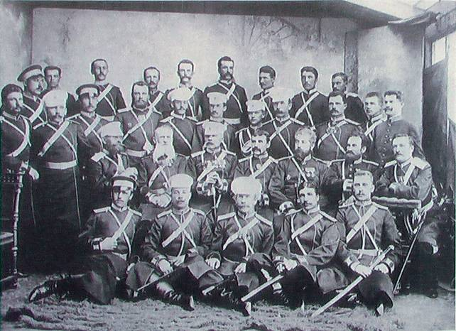 Офицеры 2-го Оренбургского казачьего полка. Конец XIX в. В центре в фуражке полковник В.П.Греков